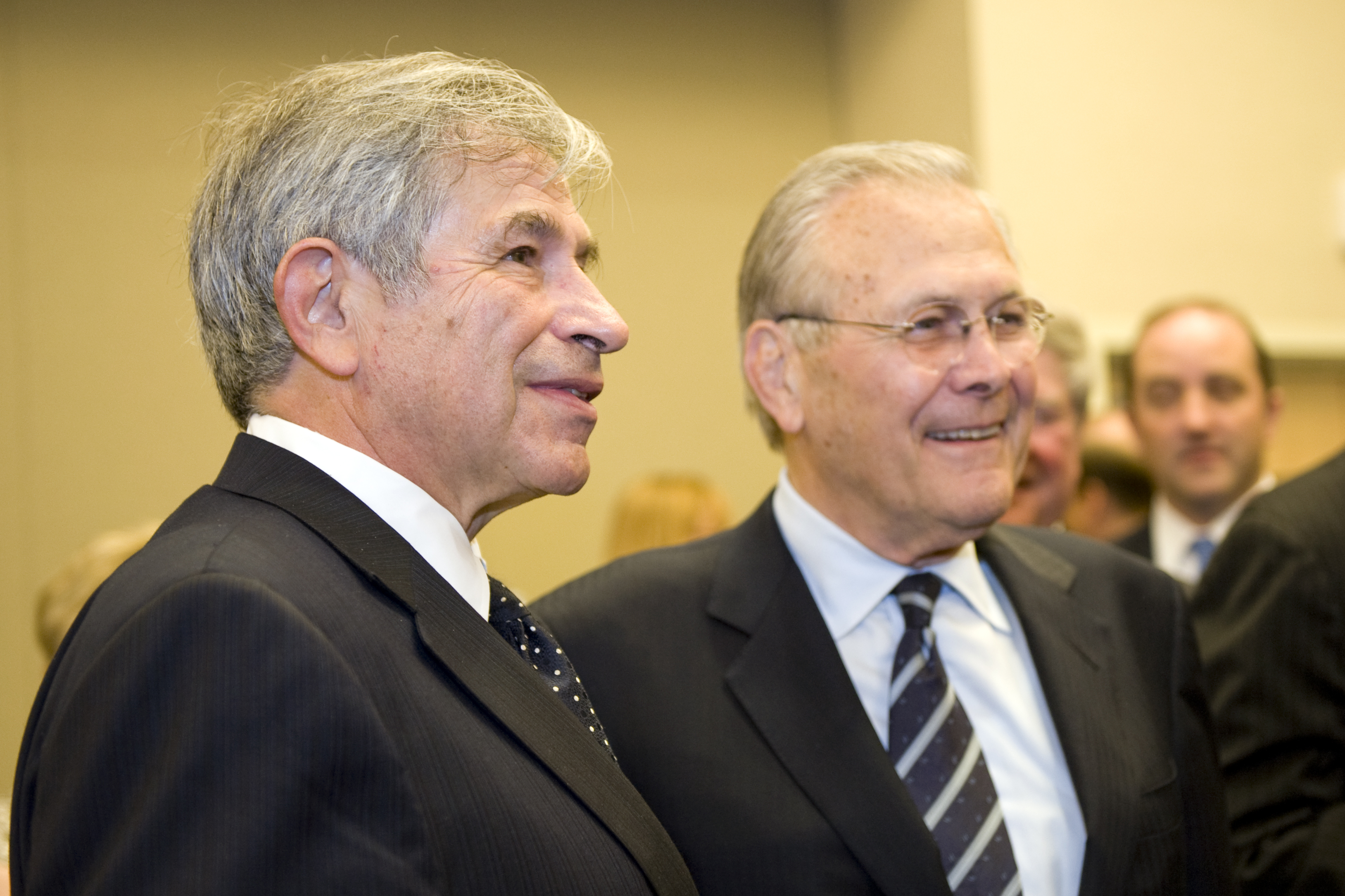 Former Deputy Secretary of Defense Paul Wolfowitz, left, and former Secretary of Defense Donald H. Rumsfeld pose for a photo during Rumsfeld's portrait unveiling ceremony at the Pentagon June 25, 2010.